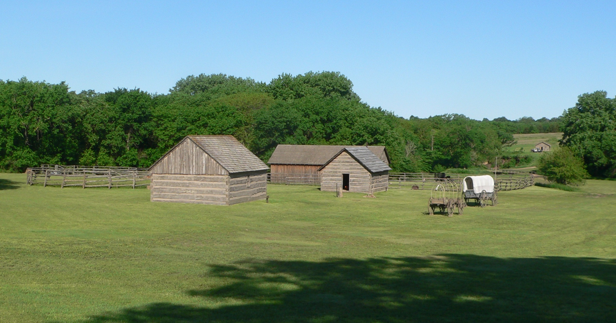 Rock Creek Station State Historical Park, located east of Fairbury in rural Jefferson County, Nebraska. Reconstructed East Ranch buildings and corrals, viewed from generally eastward. A reconstructed West Ranch building is visible through a gap in the trees on the opposite slope, near the right edge of the photo